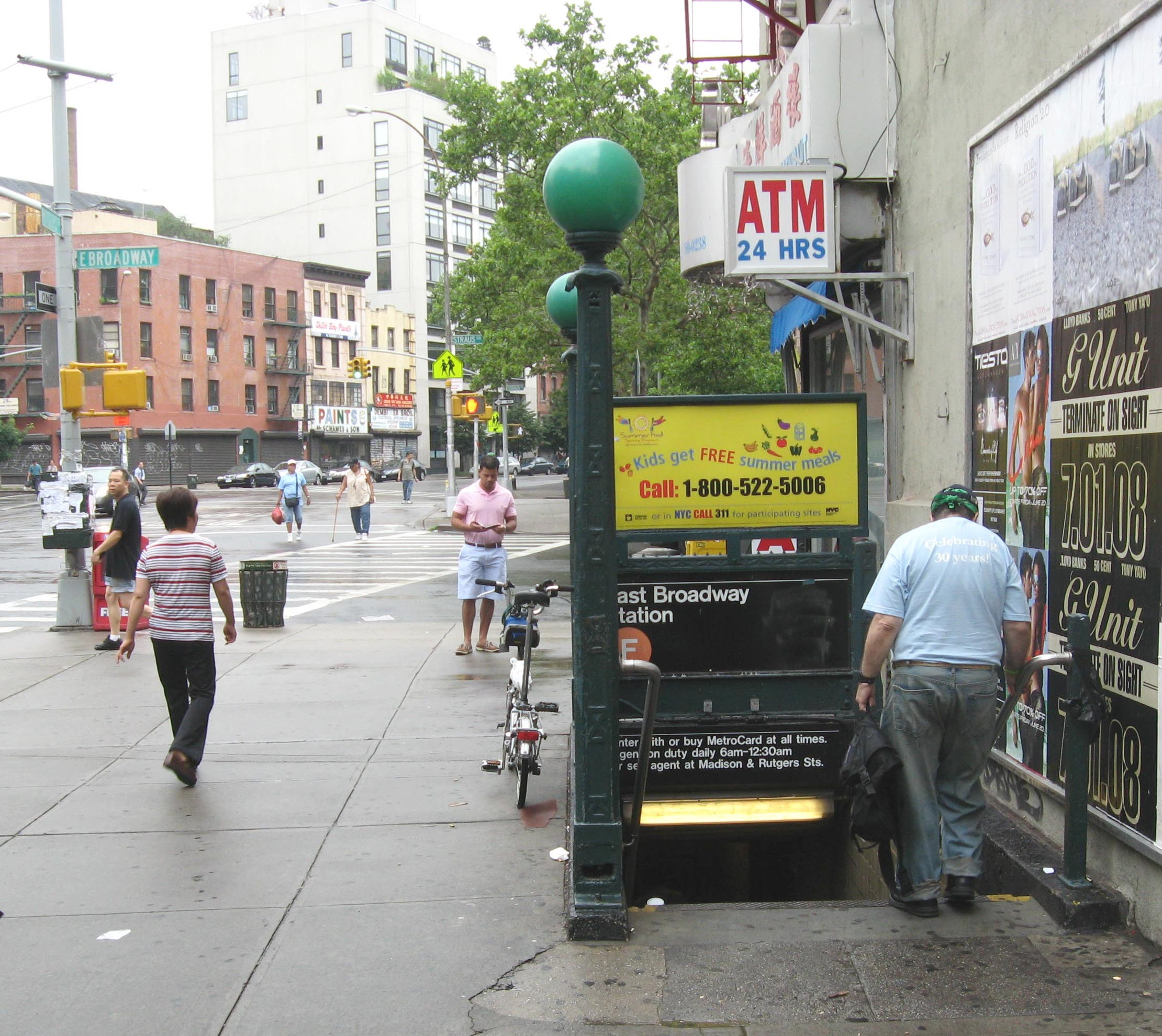 Looking north at northern stair of East Broadway on a rainy afternoon